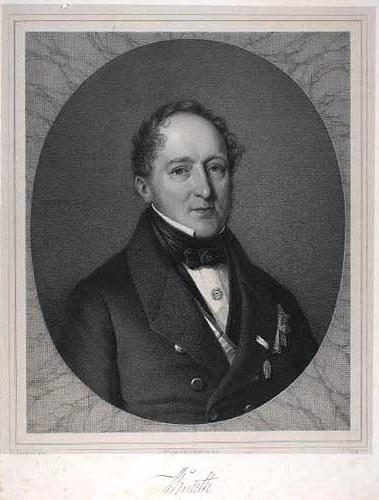 Frederik Christian Julius Knuth (1787-1852), Danish Count, jurist, estate owner, and district officer